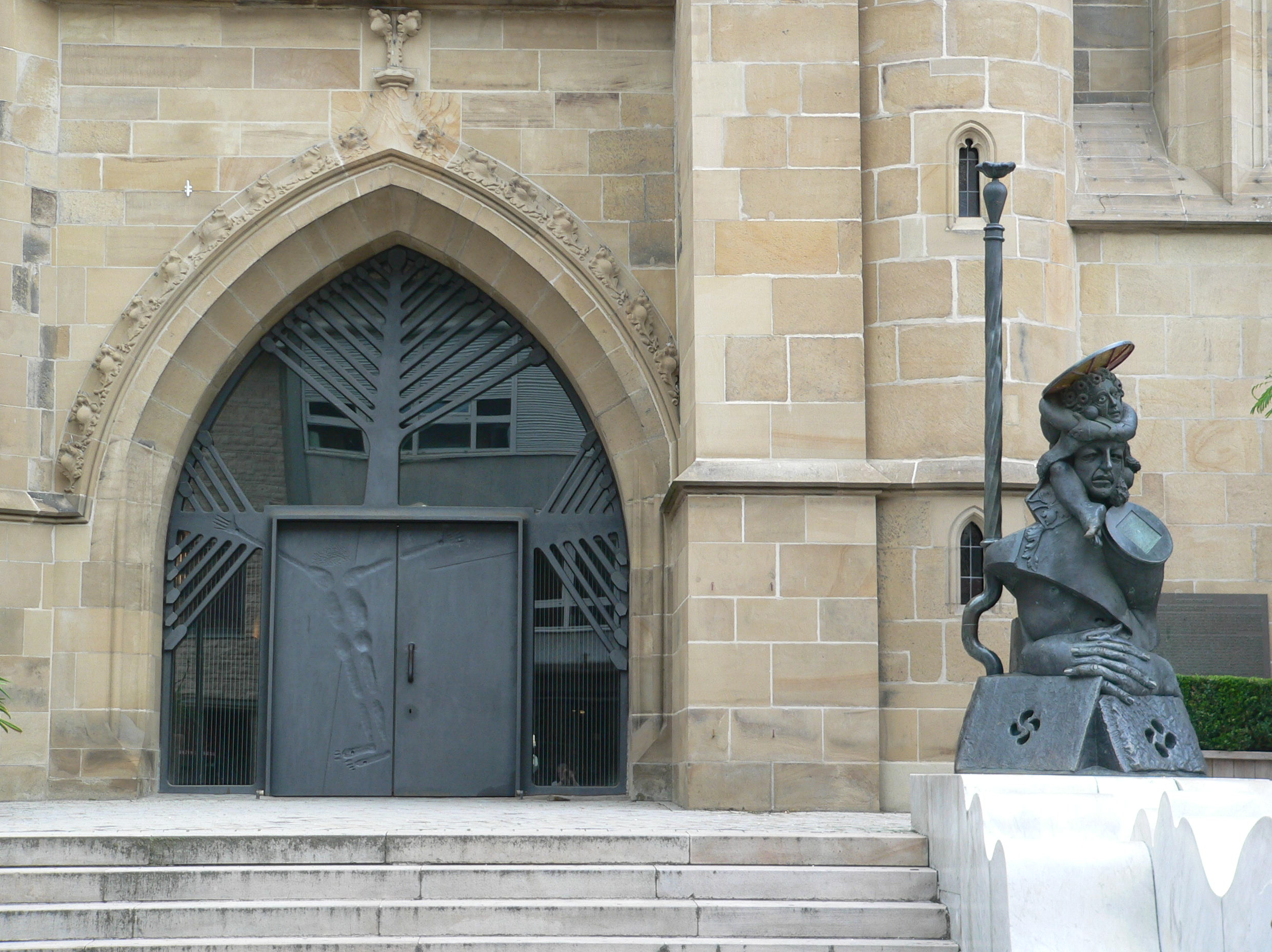 Mainportal on the south of the Church Kilianskirche of Heilbronn - Germany, 2007, by J. Köhler